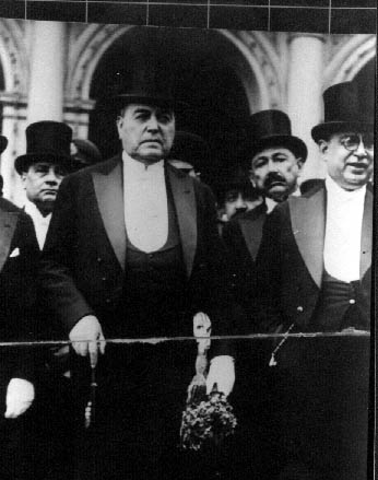 Hipólito Yrigoyen, president of Argentina